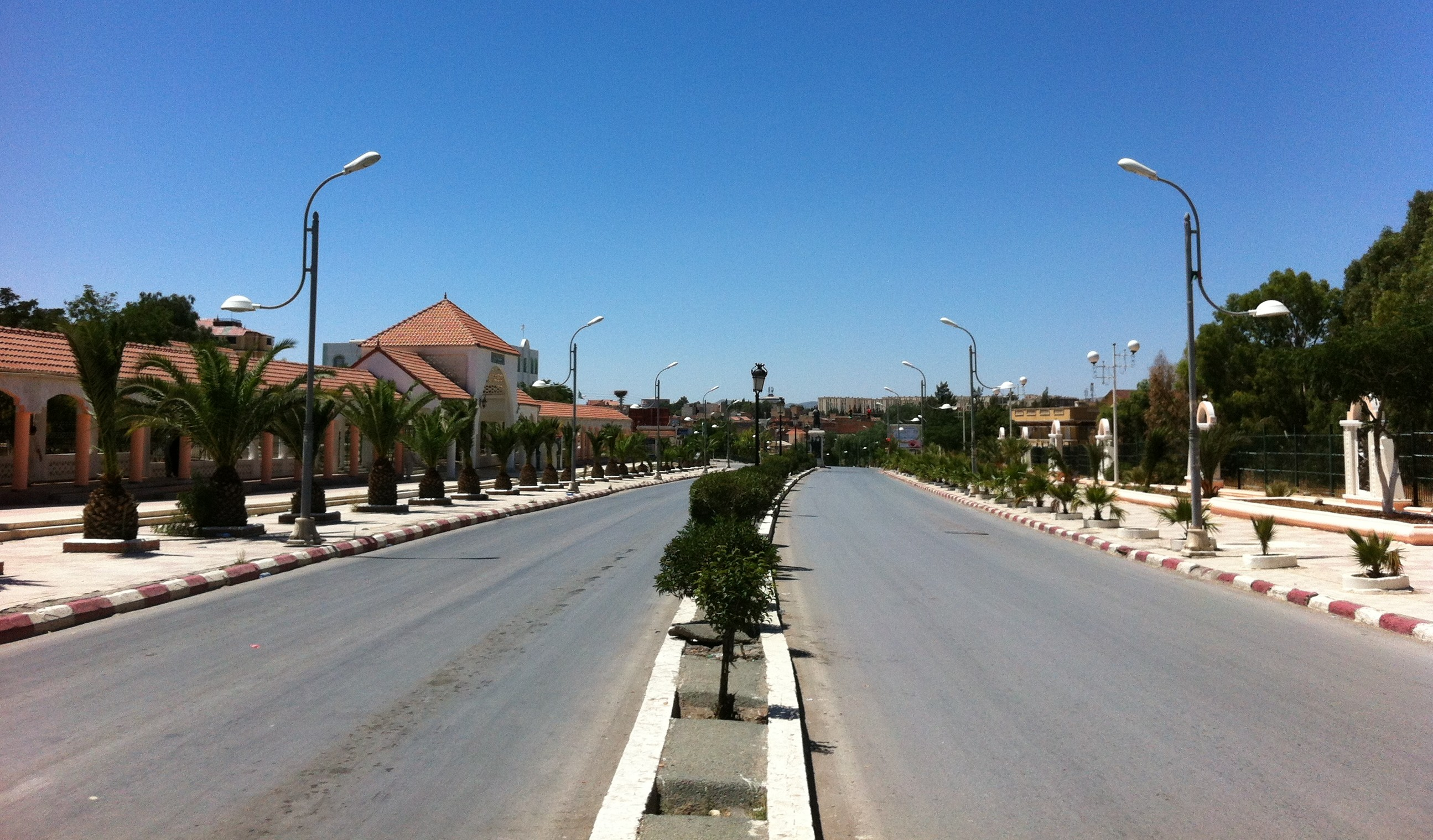 Bordj Bou Arreridj (Algeria), highway N5 crossing the downtown.